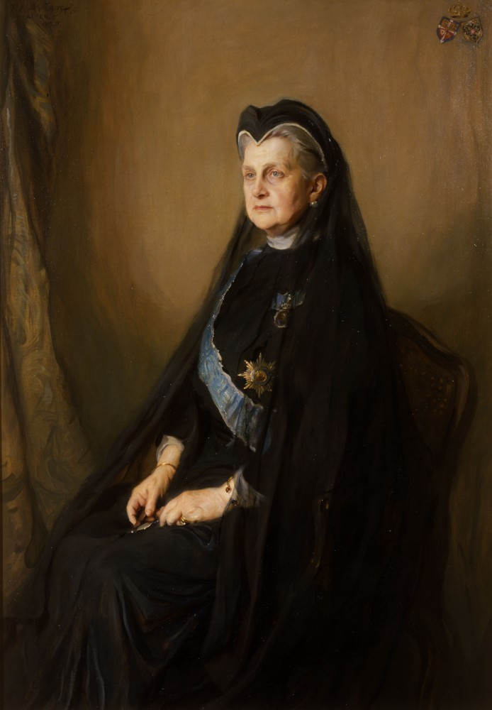 Portrait of Queen Olga of Greece (1851-1926)